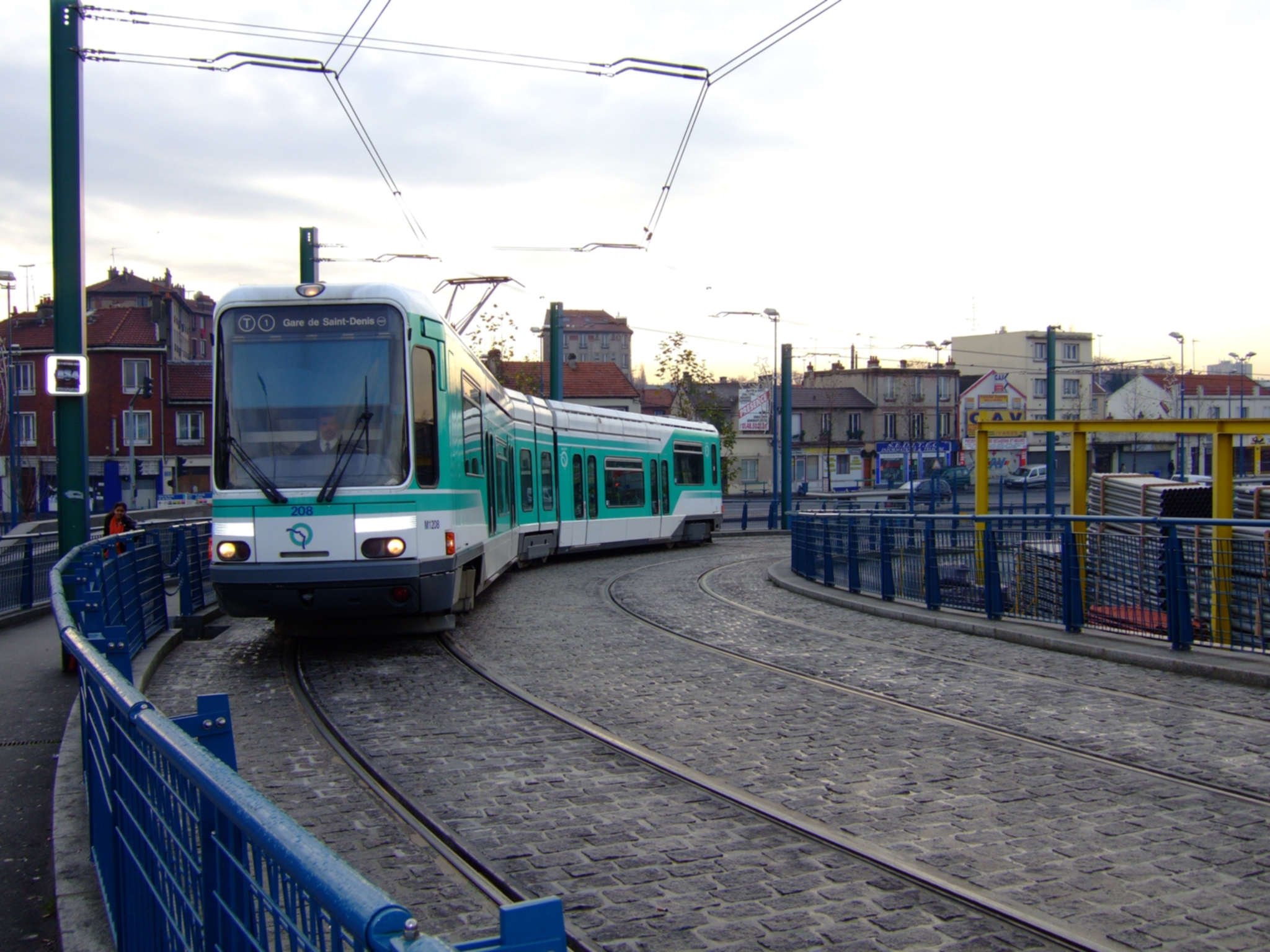 Tramway parisien line T1, Saint Denis - Noisy le Sec (both in Seine Saint Denis, France). A tram is arriving to Pont de Bondy station in direction to Saint denis. Material is a Alsthom TFS